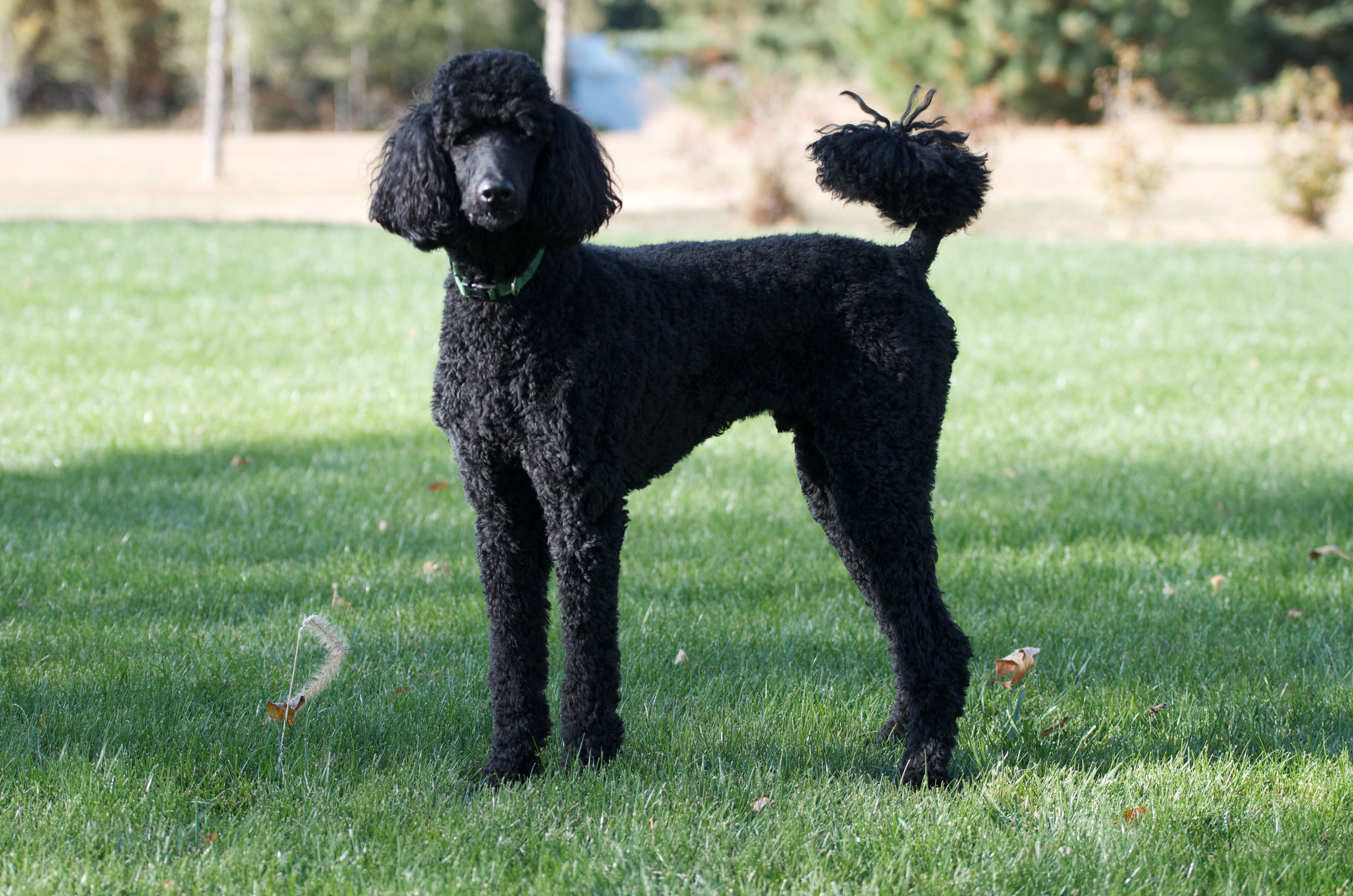 The boys and I took our standard poodle out into the backyard for the exercise while I practiced my action photography. Hilarity ensued.